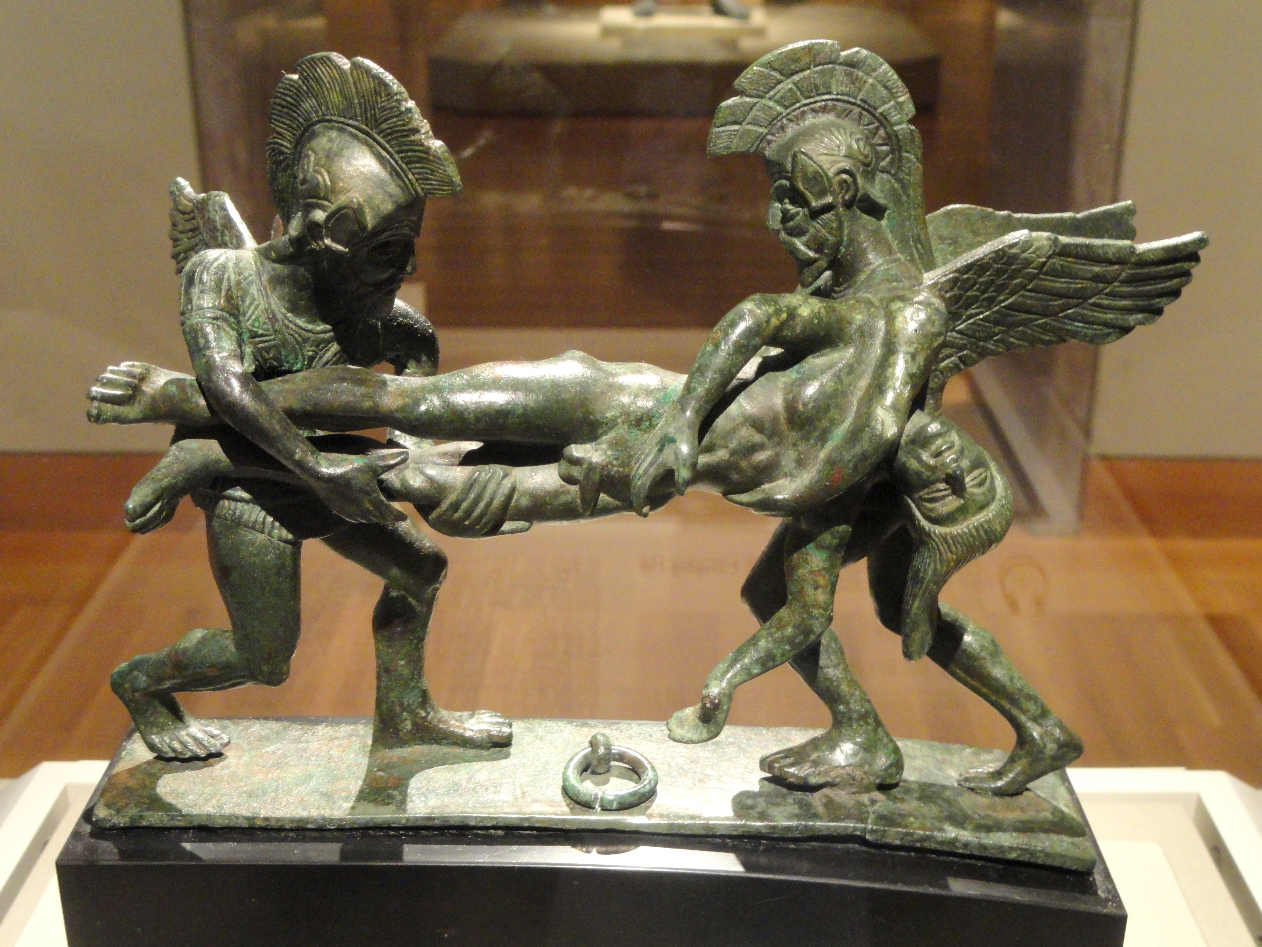 Etruscan bronze statuette — in the Cleveland Museum of Art, Cleveland, Ohio, USA. This artwork is old enough so that it is in the public domain.